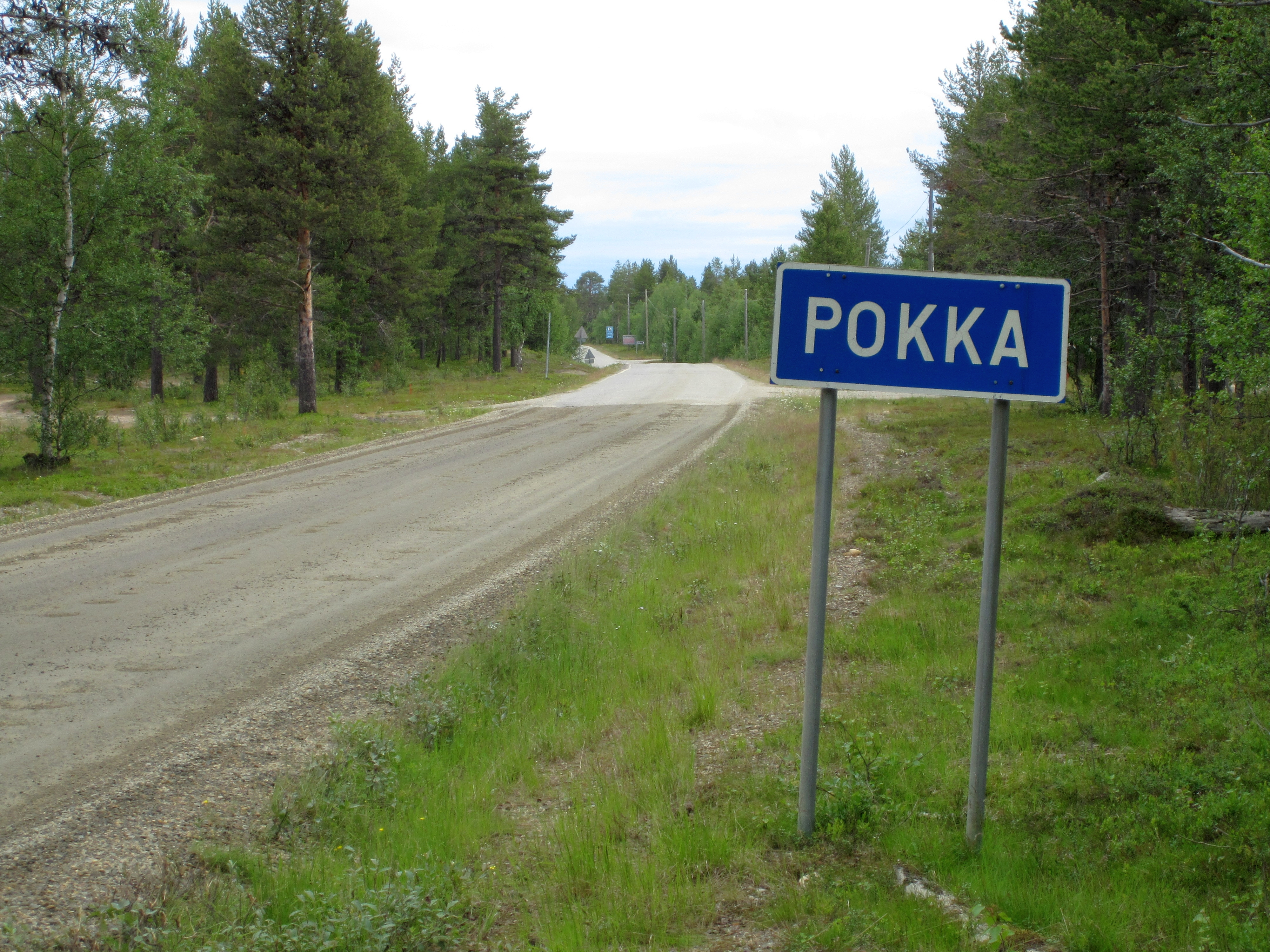 Regional road 955 in Pokka, Kittilä, Finland.